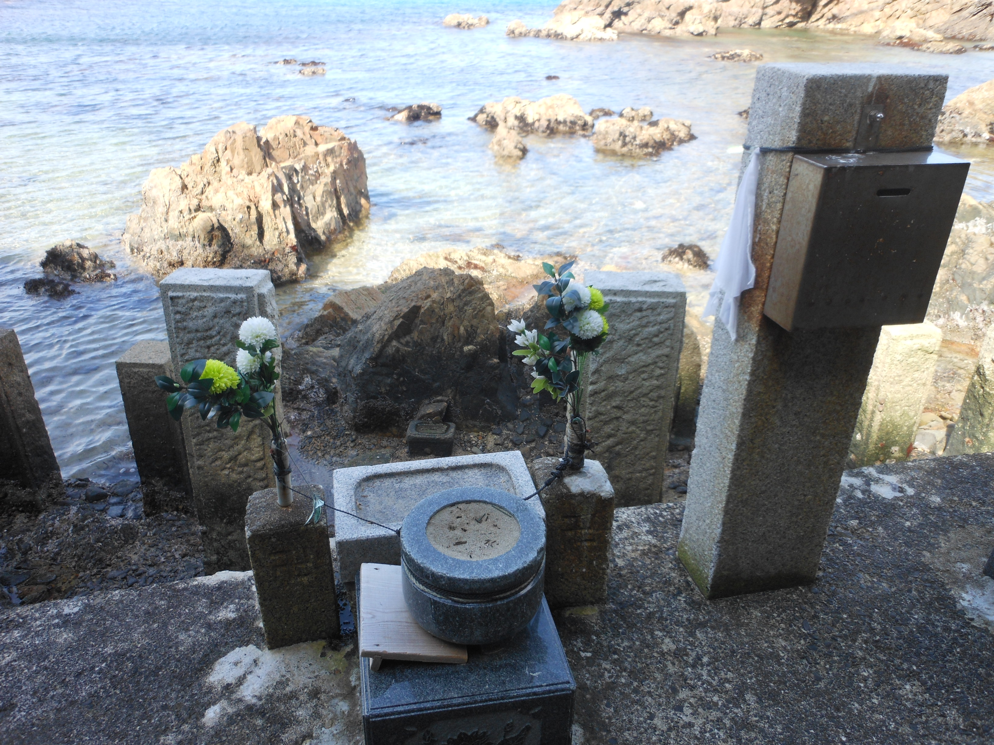 This is the Shiobotoke or buddha in the sea, which is located in Shima, Mie, Japan.